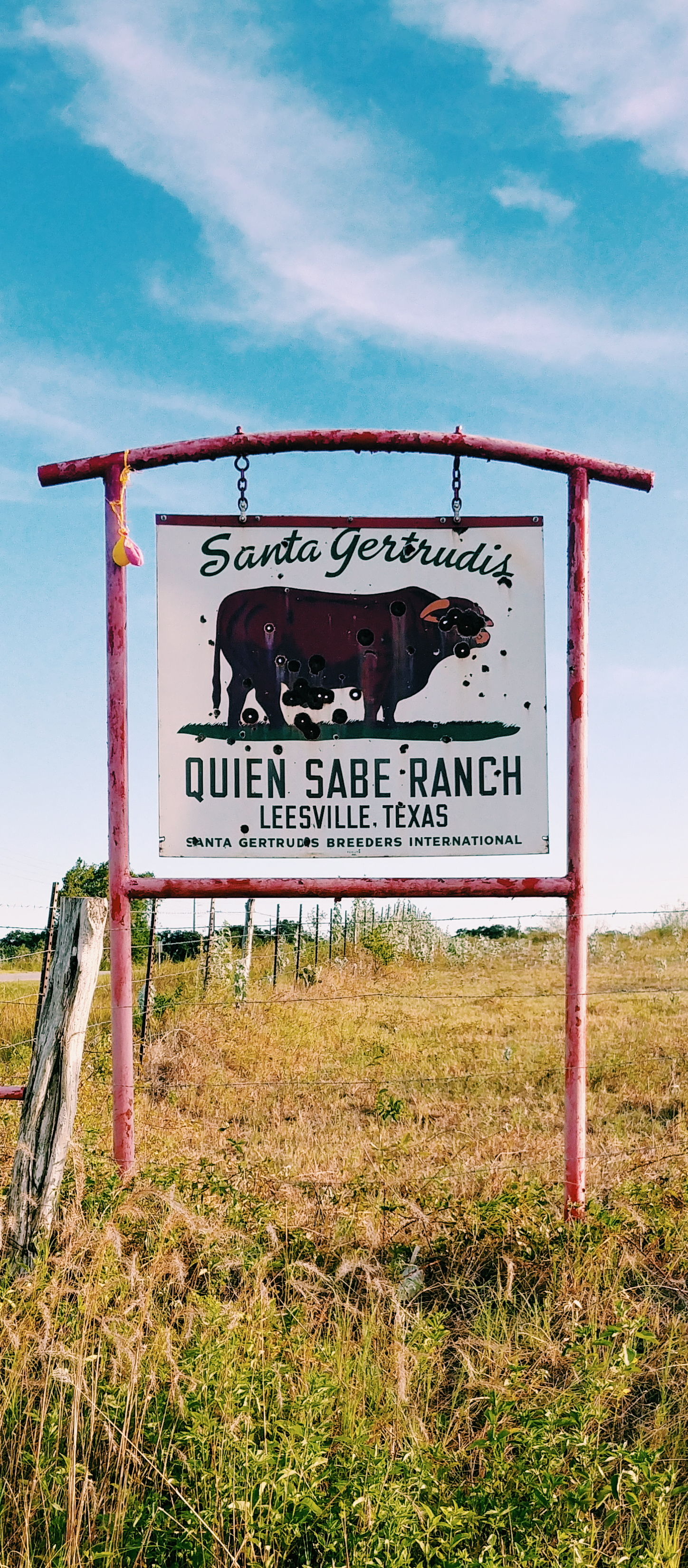 Leesville skyline lower resolution, better cropped